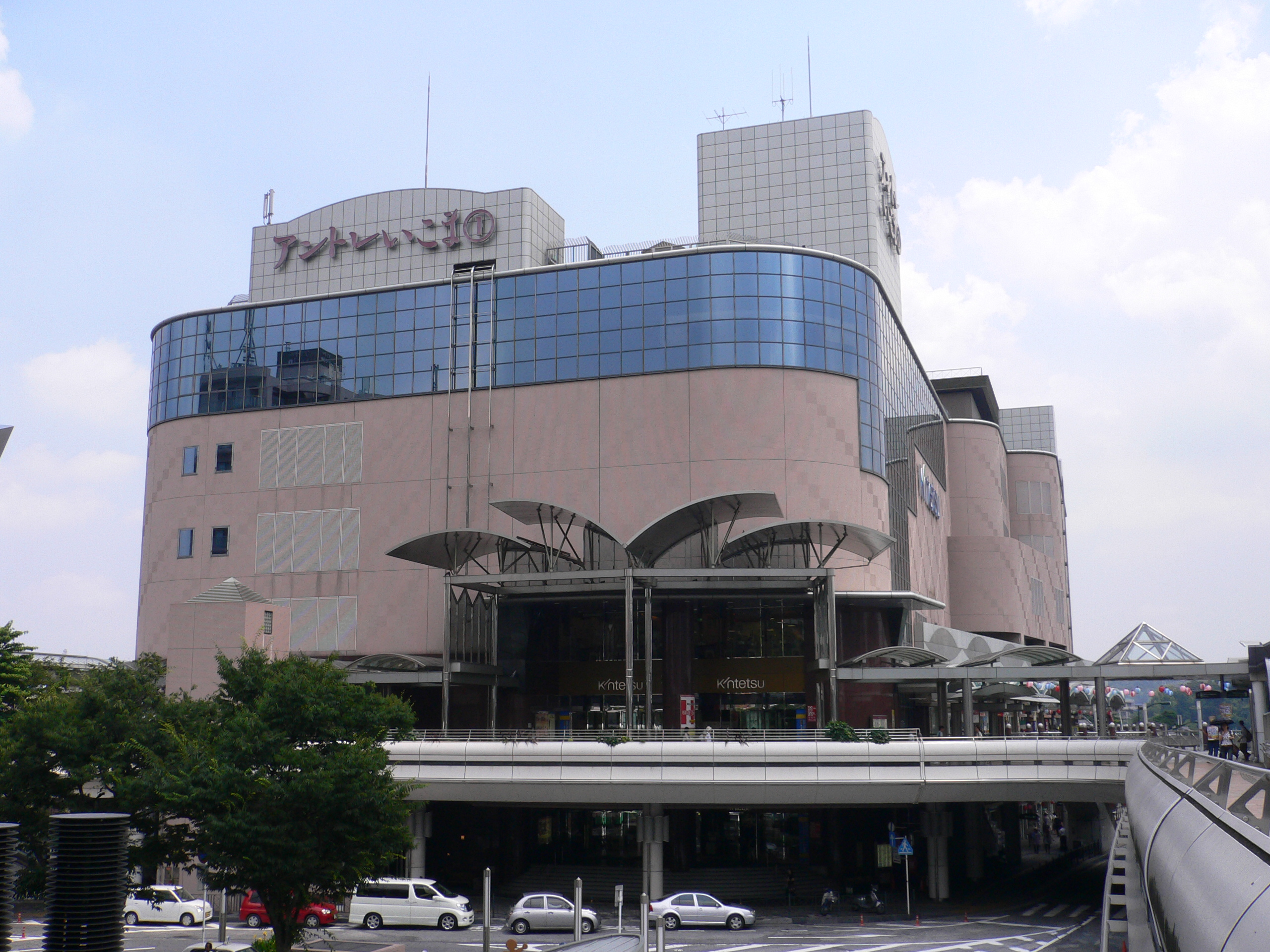 Ikoma Station north aisle (Level 2) taken from near the west entrance Ikoma Station